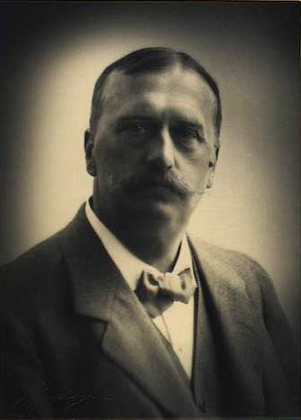 Danish landowner and farmer Adolph Tesdorpf (1859-1929)